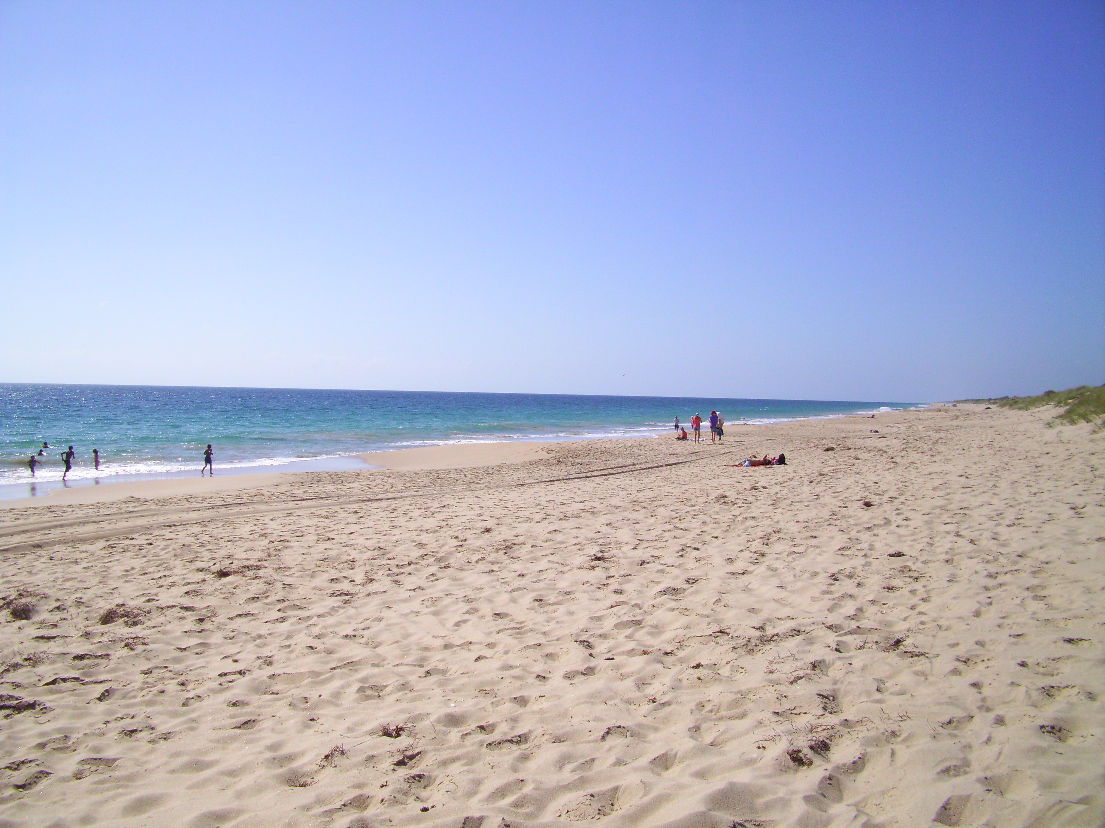 View along Preston Beach, Western Australia